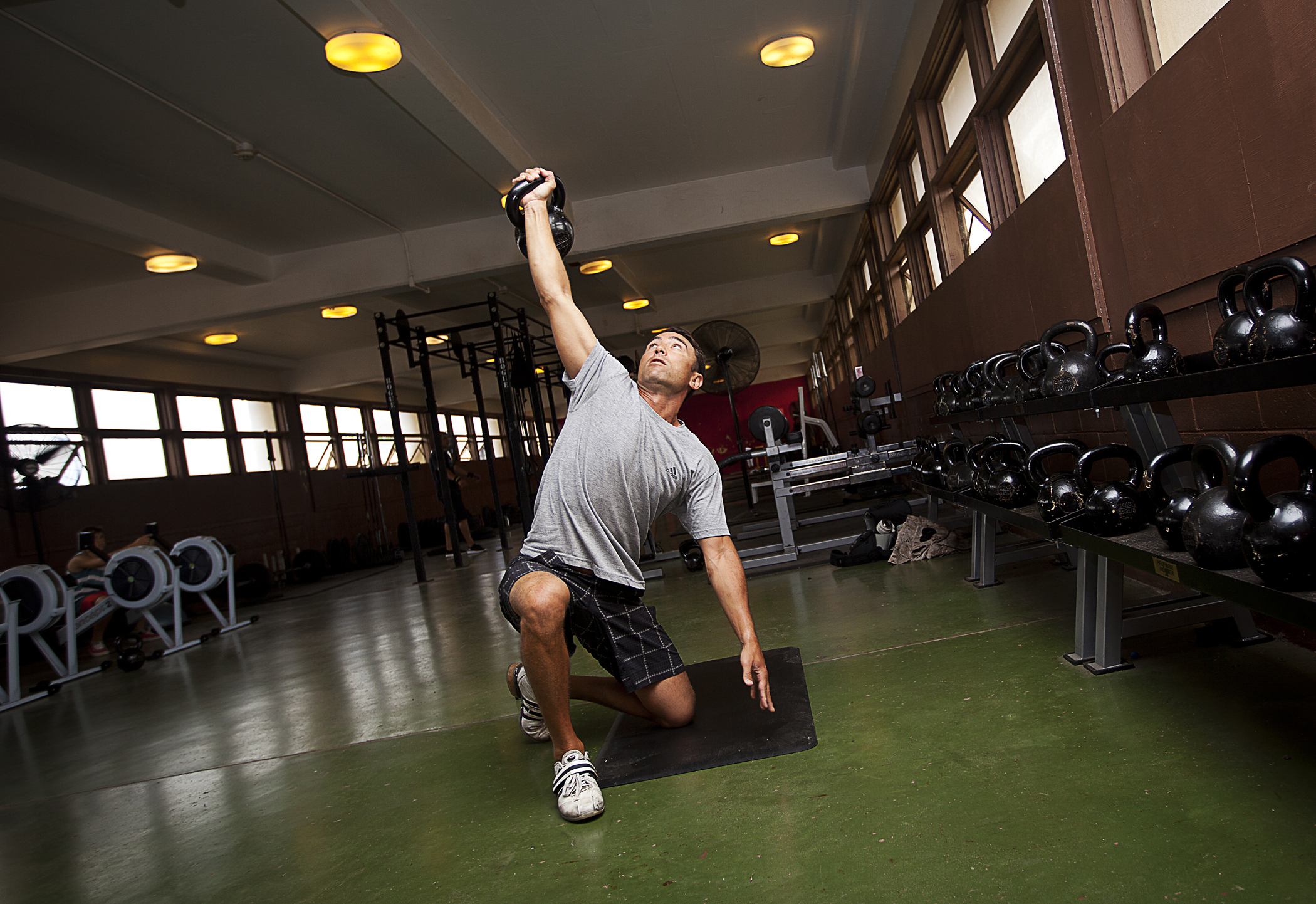 Navy Lieutenant Cmdr. Andy Silvestri, a dentist with 21st Dental Company and 35-year-old from San Jose, Calif., performs Turkish get-ups during a circuit workout at the High Intensity Tactical Training (HITT) Center on Marine Corps Base Hawaii, Aug. 14, 2012. Open since August 2011, the HITT Center is a gym devoted to supporting circuit and high-intensity cross training. Equipment featured inside includes battle ropes, BOSU and Dyna balls, ellipticals, kettle bells, medicine balls, plyometric boxes, rowing machines and TRX suspension training rings. The center, located in Building 1034 next to the 3rd Marine Regiment Satellite Fitness Center, is available for use by service members Monday through Friday, from 6 a.m. to 9 p.m.